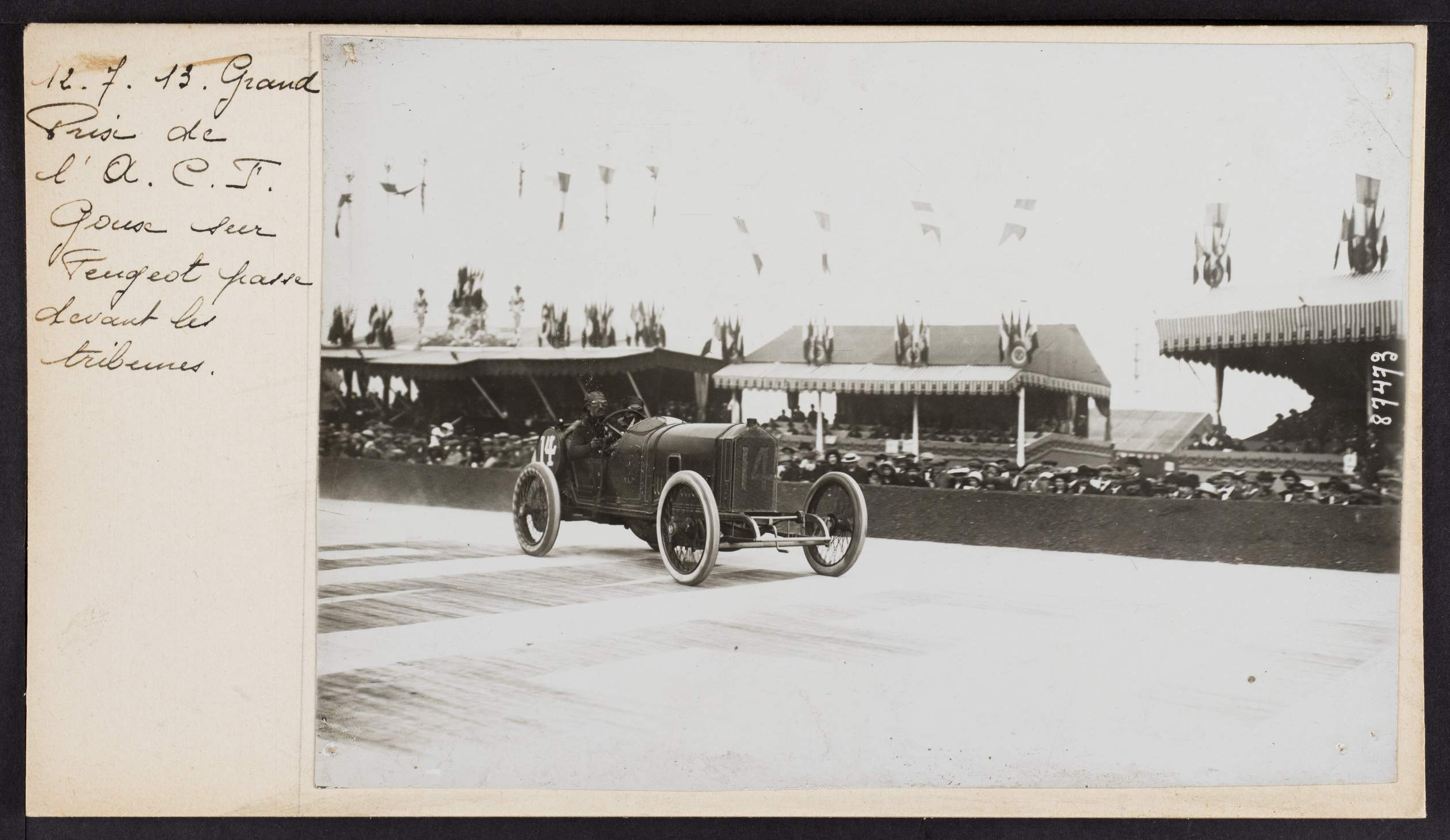 12 juillet 1913. Grand prix de l'A.C.F. Goux sur Peugeot passe devant les tribunes.